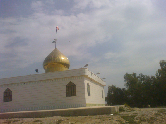 Emamzadeh Doroudgah